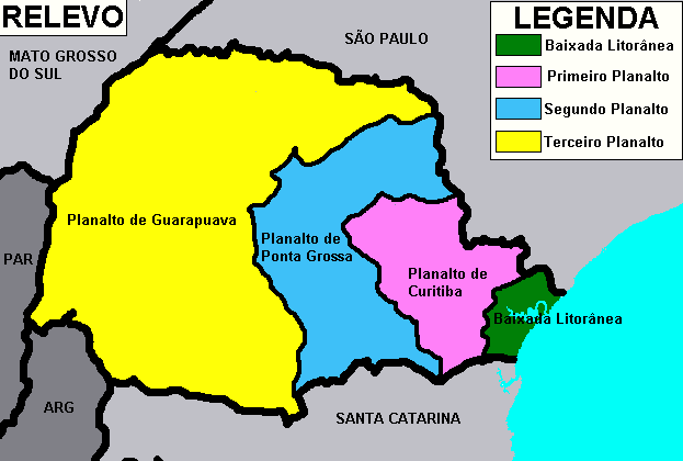 Physical map of Brazilian State of Paraná.